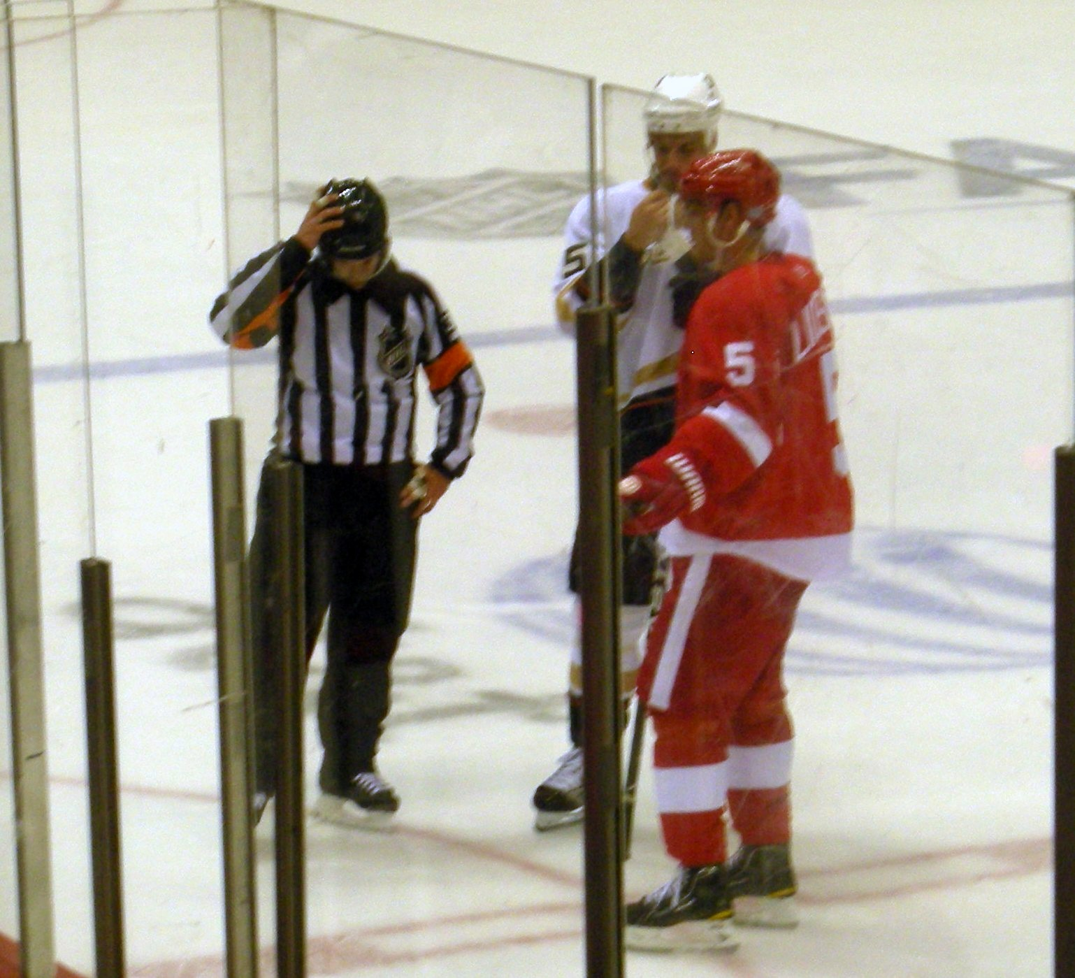 The referee with captains Ryan Getzlaf and Nicklas Lidström during the Anaheim Ducks vs. Detroit Red Wings ice hockey game at Joe Louis Arena in Detroit, Michigan (United States). Detroit won 4–0.